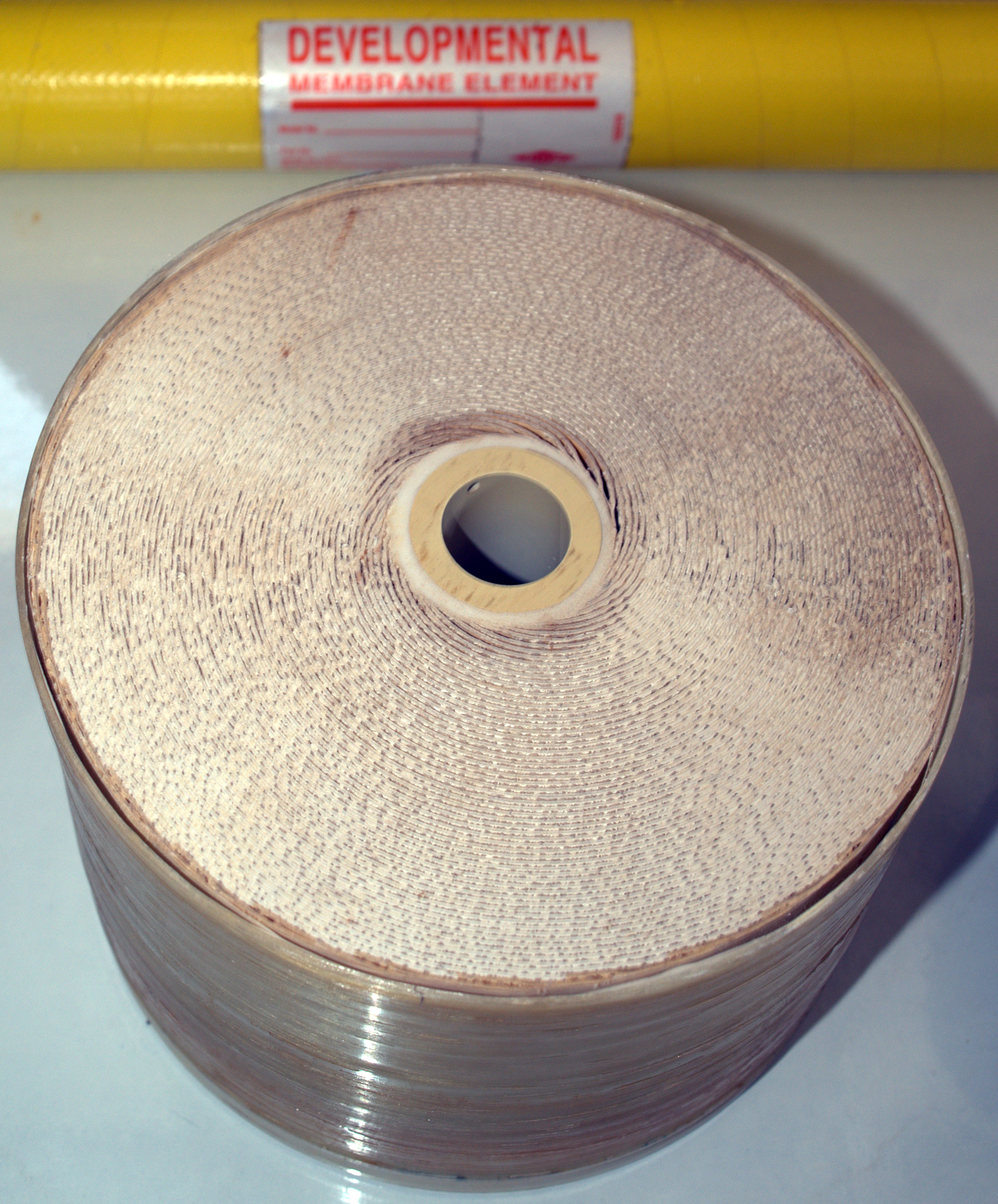 Reverse osmosis Semipermeable membraneJacob Blaustein Institutes for Desert Research in The Negev desert.